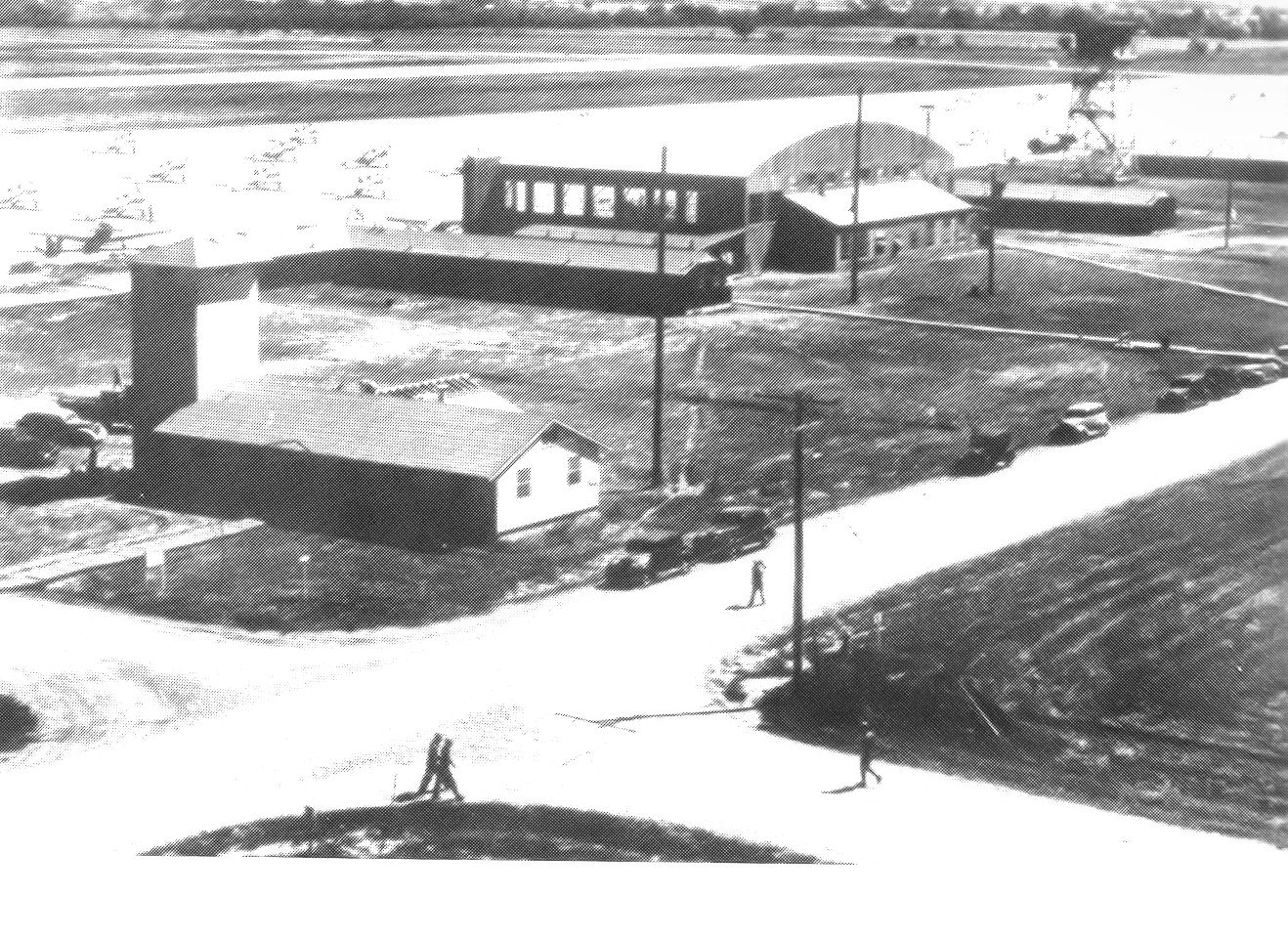 Coffeyville AAF Parachute Shop Flight Line Tower 1945